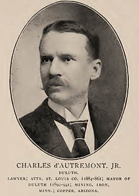 Charles d'Autremont, Jr., Mayor of Duluth (1892)